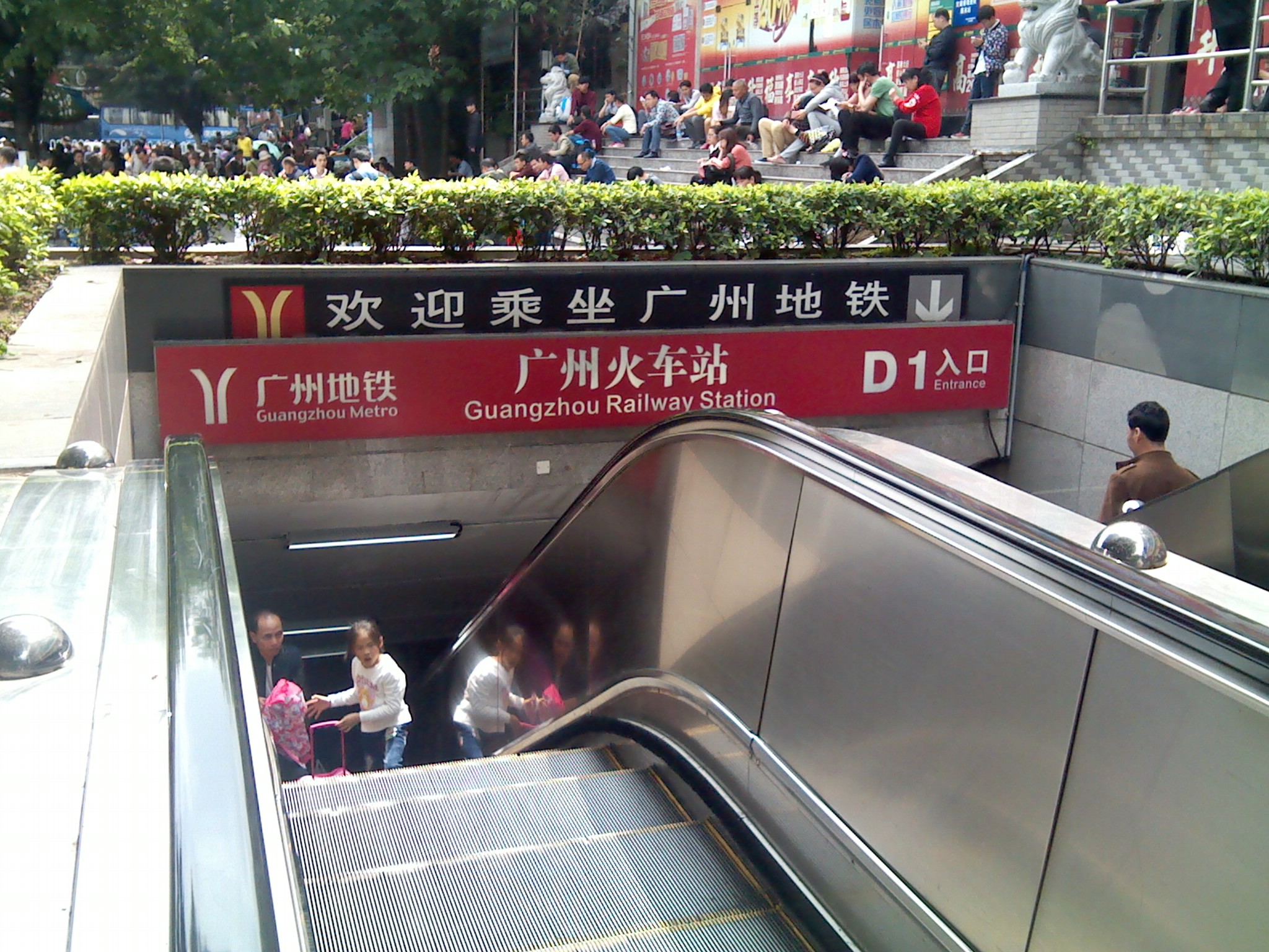 地铁广州火车站D1出入口